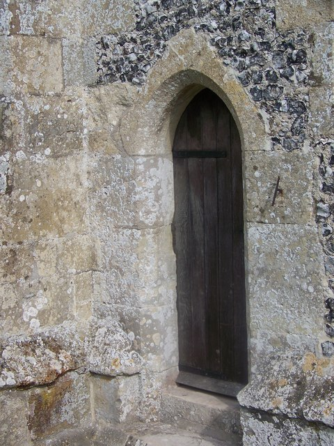 St Mary and St Lawrence parish church, Stratford Toney, Wiltshire: priest's door and Mass dial